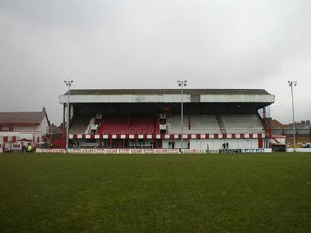 Solitude, Belfast